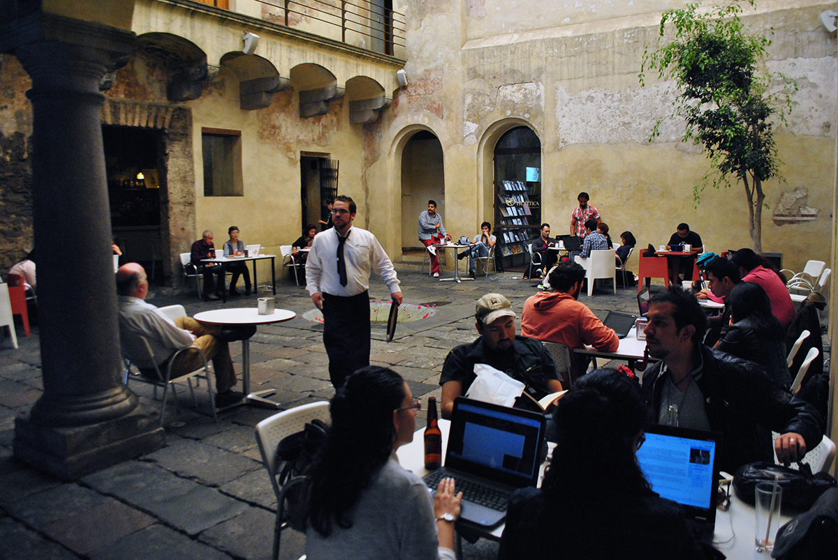 The Third Edit-a-thon of the city of Puebla was a marathon of editing Spanish WIkipedia with reliable sources, in order to expand and improve the quality of articles on a given topic. Was performed in Profética casa de la lectura and was organized by Puebla Wikipedians and Wikimedia México